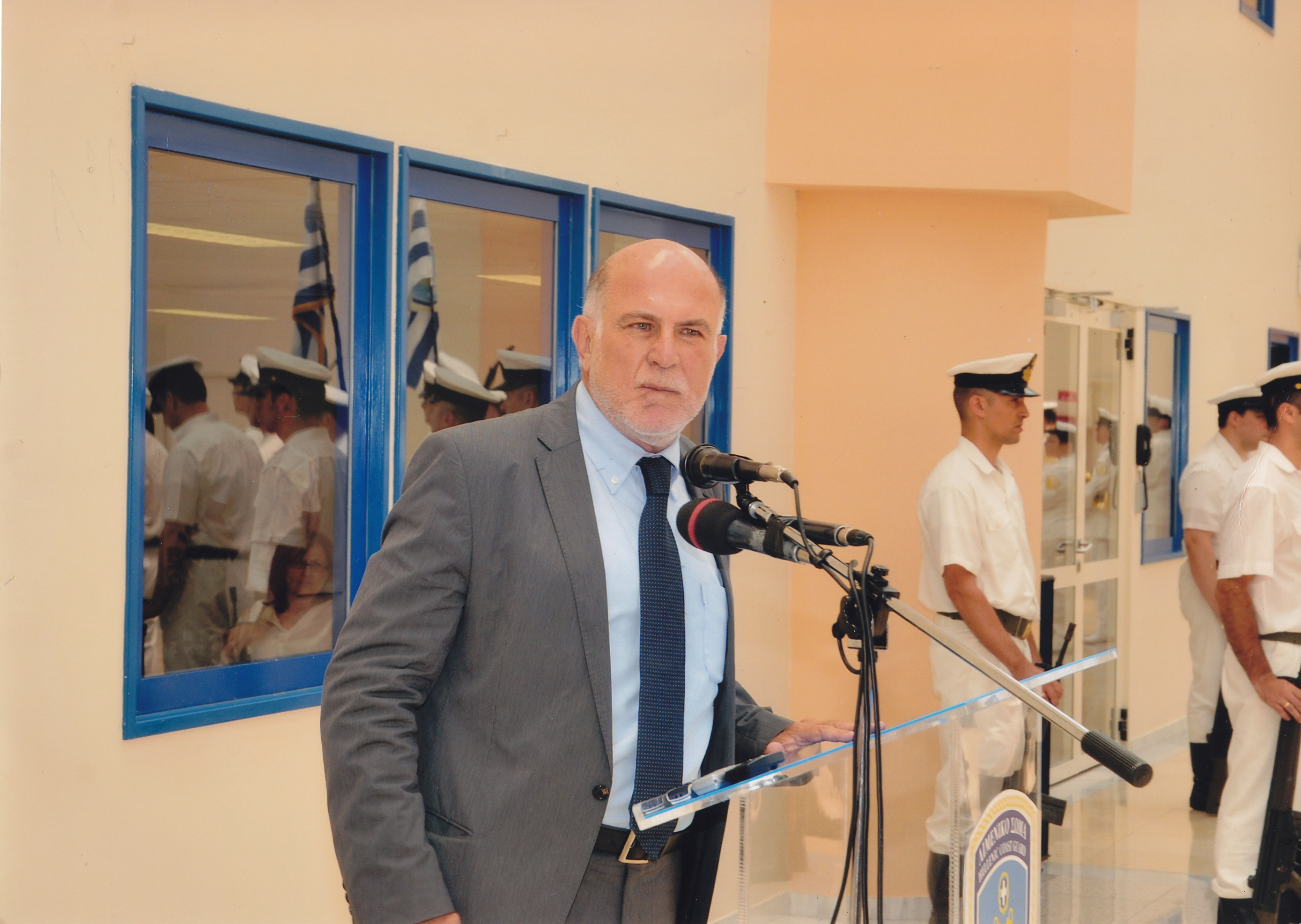 George Vernicos Speech